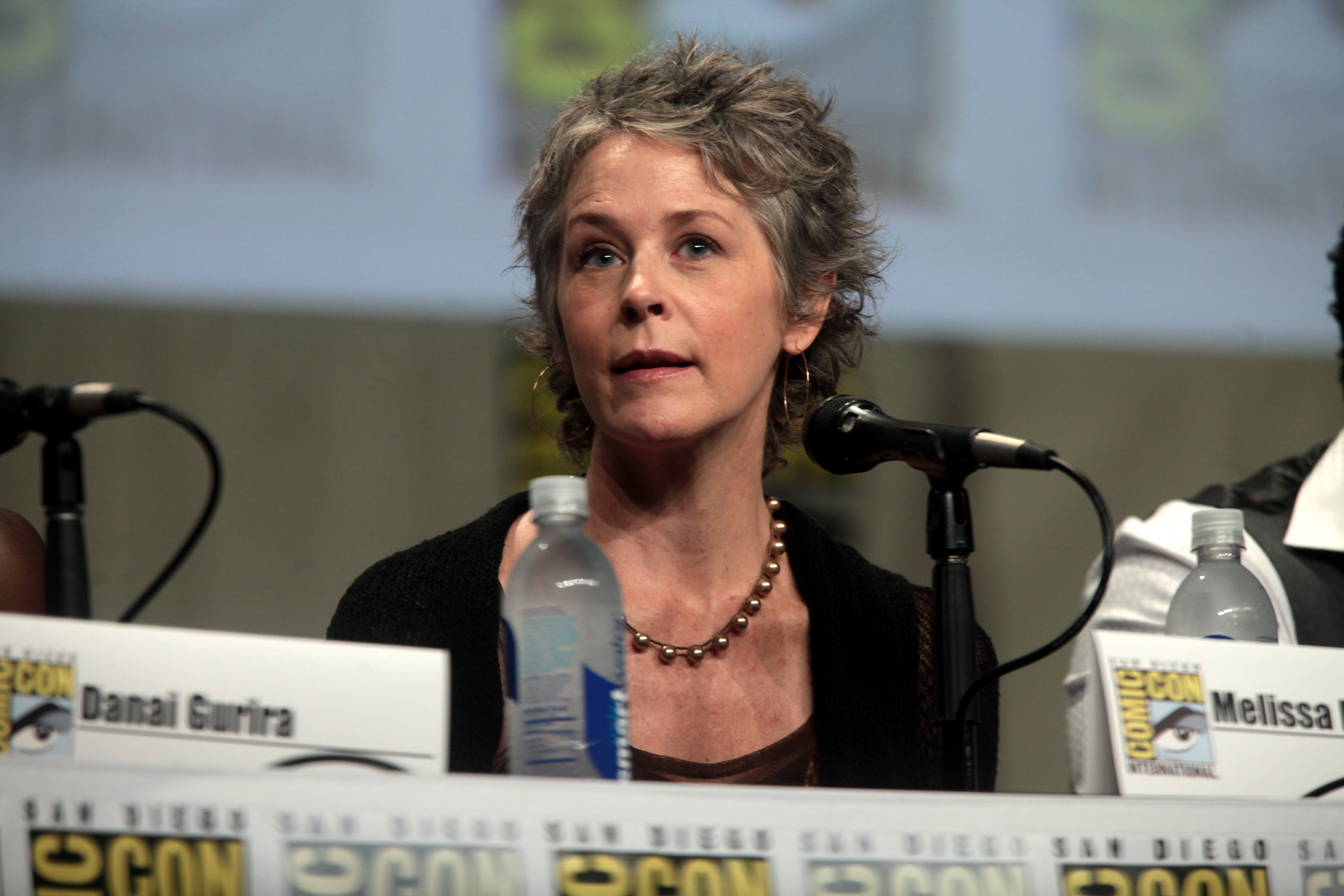 Melissa McBride speaking at the 2014 San Diego Comic Con International, for "The Walking Dead", at the San Diego Convention Center in San Diego, California.